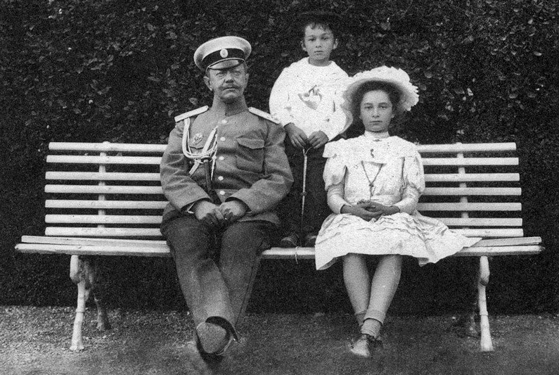 Nikolai Nikolaevich Komstadius (1866 - 1917) with children